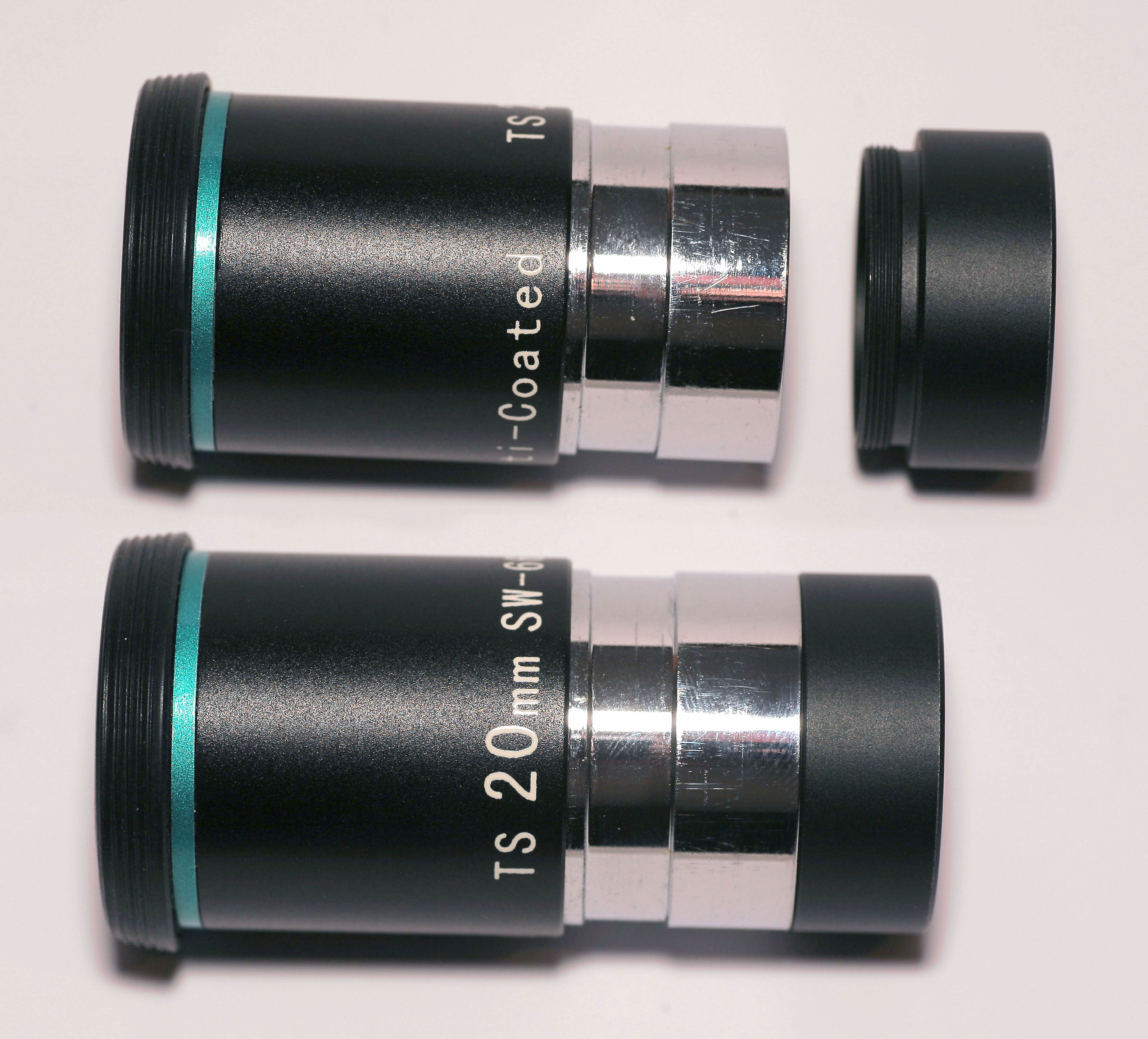 A Barlow lens beside and mountet an an ocular